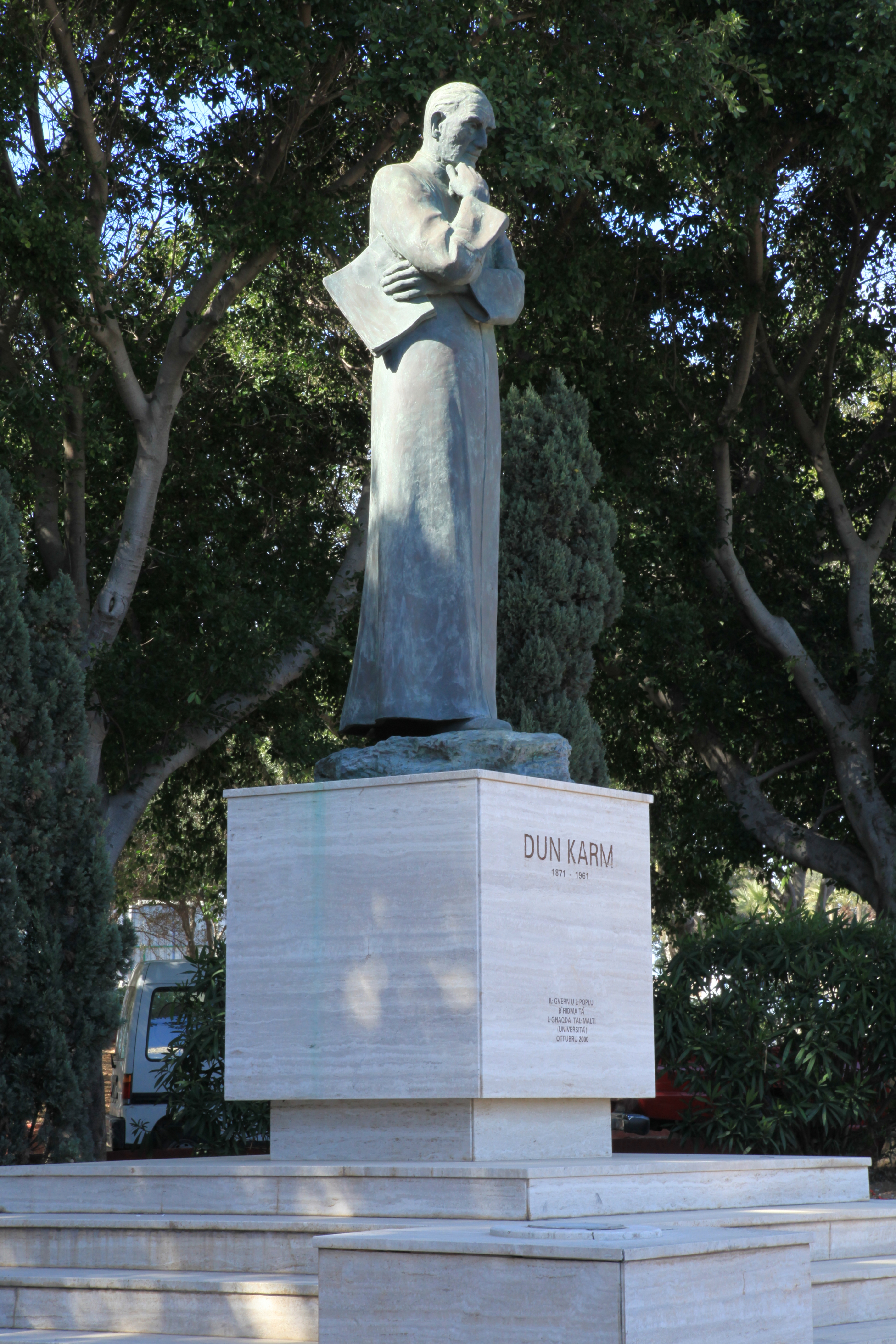 Monument to Dun Karm Psaila, Triq Sant' Anna in Floriana, Malta